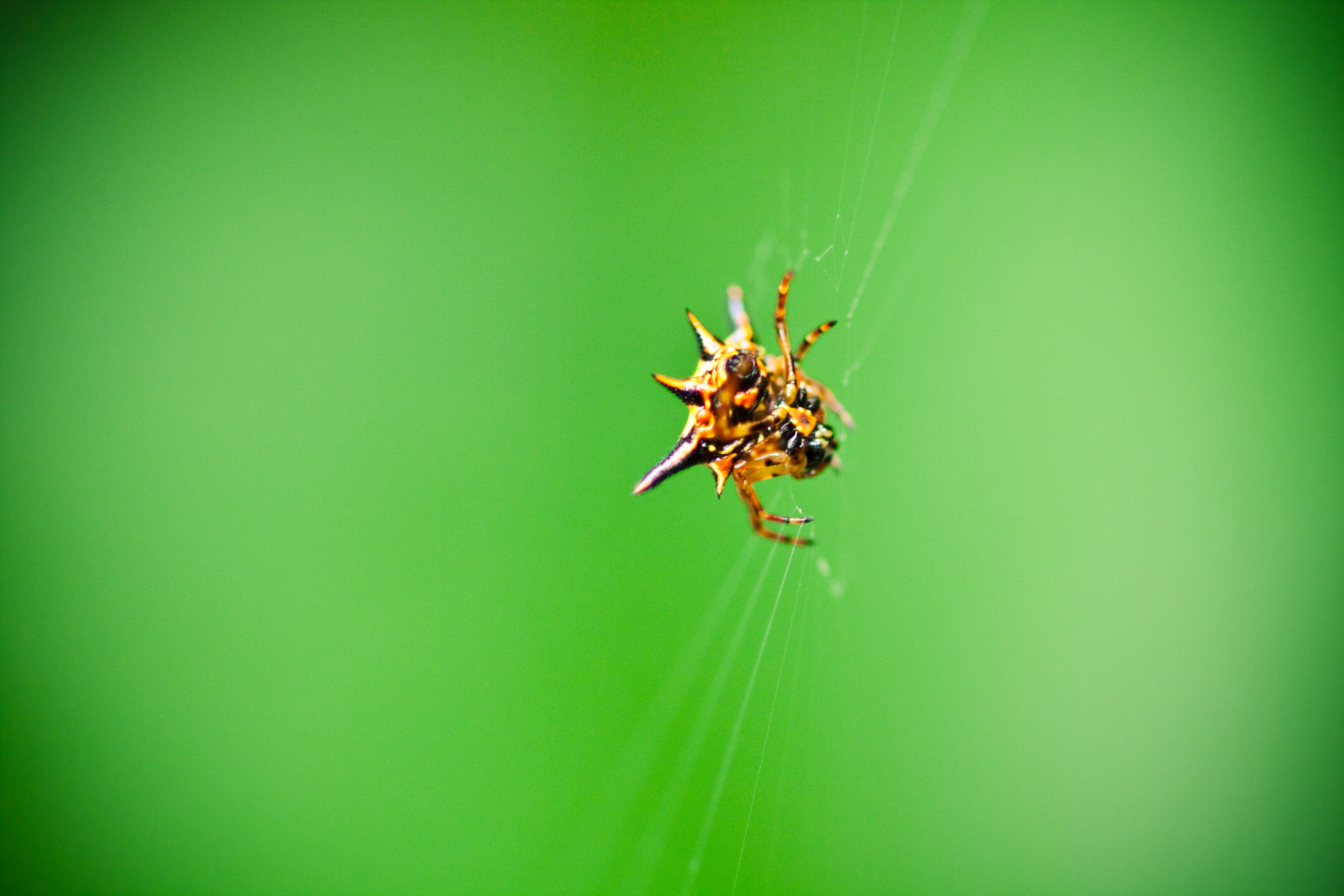 Gasteracantha hasselti. "Pulling the Web"